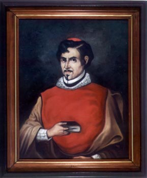 Diego Camacho was the 11th Archbishop of Manila from 1697 to 1705. He was a native of Badajoz, Spain.